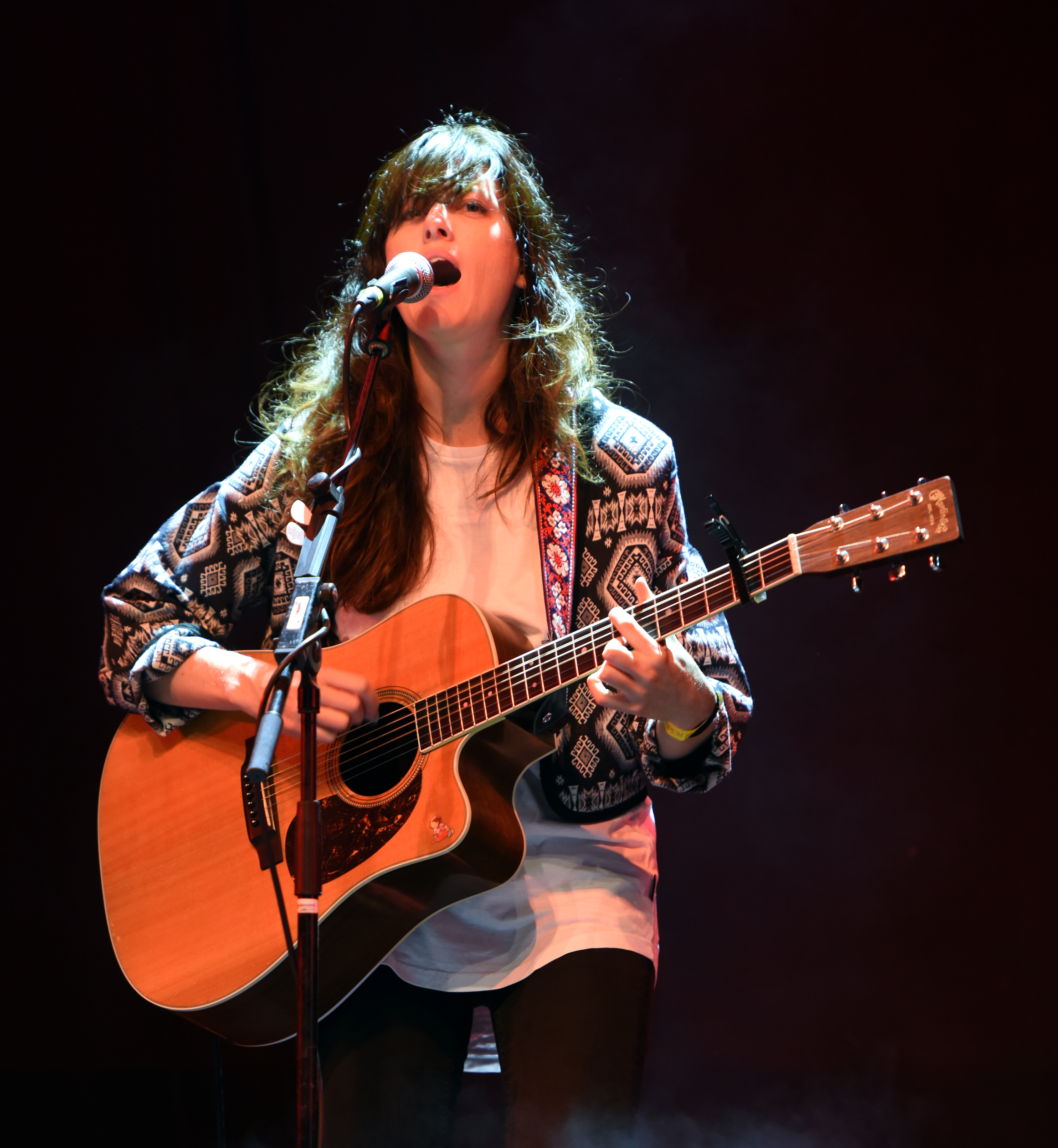 Olli Schulz at the Open Flair festival 2015 in Eschwege, Germany.